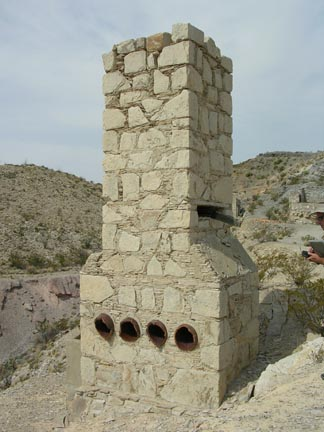 Mariscal Mine exhaust stack and final condenser in Big Bend National Park, Texas, USA